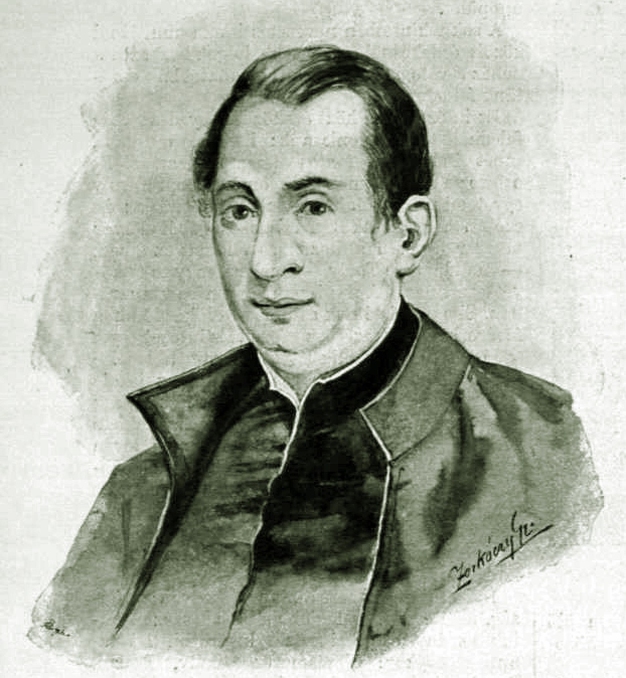 Portrait of Antal Bajtay